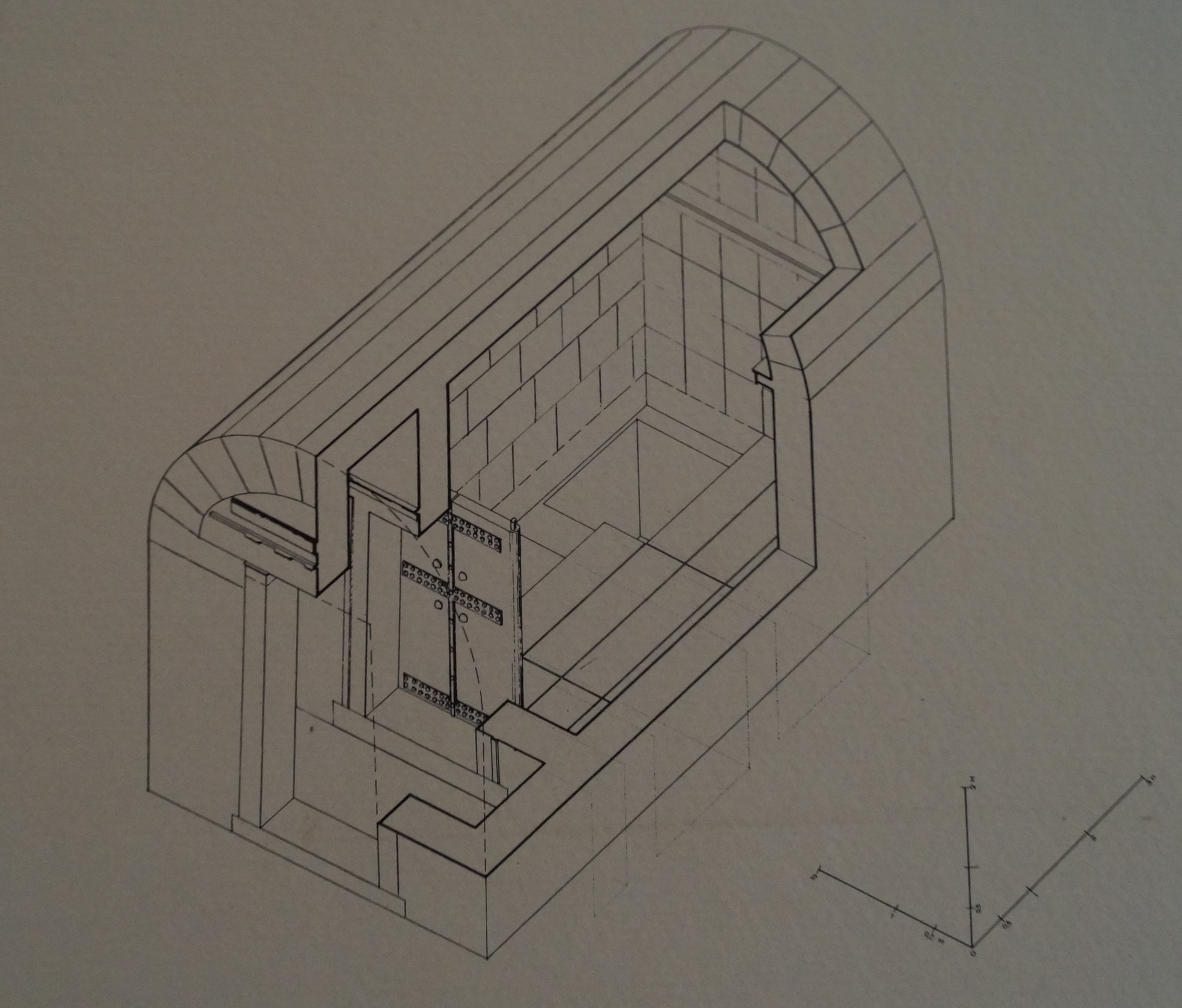 Amphipoli, Makedonia, Greece: Archaeological Museum of Amphipolis: Scheme of the macedonian tomb 2 in Sykia east of Argilos.